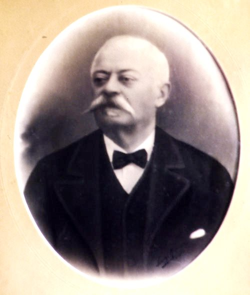 di famiglia risorgimentale cilentana , con numerosi personaggi impegnati in tutti i Moti, dal 1799 ( Repubblica Partenopea ) al Volturno con Bixio e Garibaldi nel 1860, con innumerevoli condanne al carcere, al confino, all' esilio, a morte